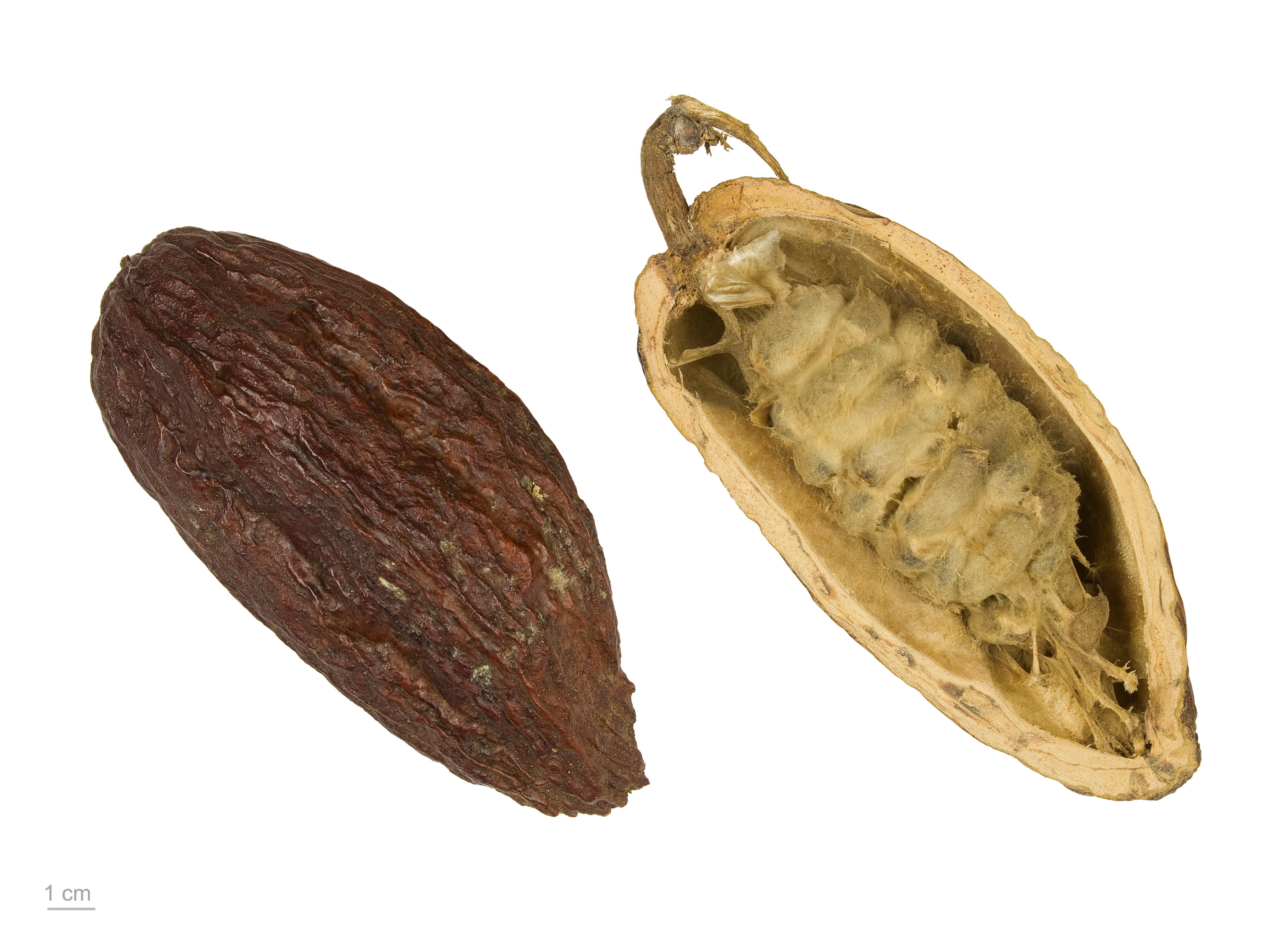 Theobroma cacao, cacao tree, fruits and seeds